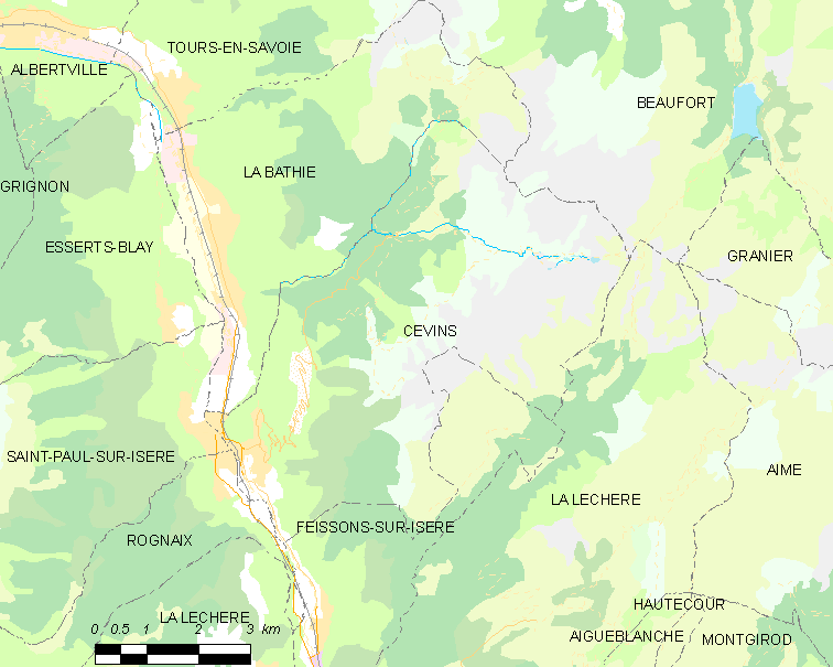 Map of French municipality